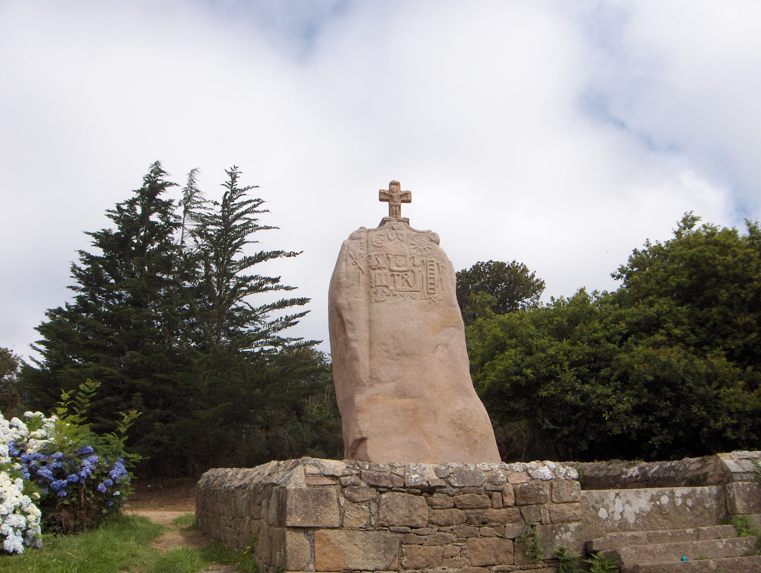 Christianized menhir of Saint-Uzec in Pleumeur-Bodou, France.